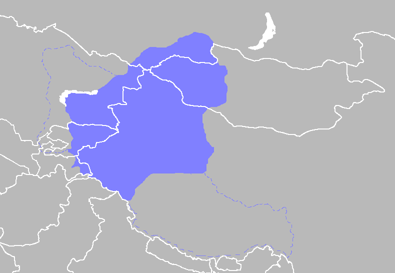 Map of the Dzungar Khanate in around 18th century. Short dashed line indicates Dzungar troops occupied areas